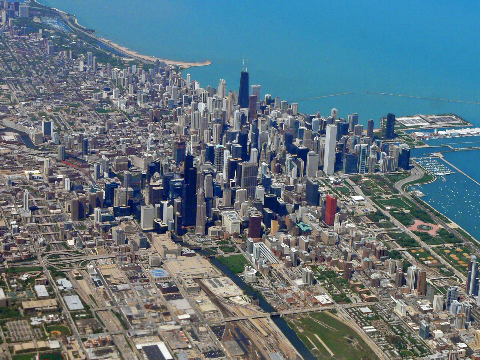 Seen from a commercial flight over Chicago.